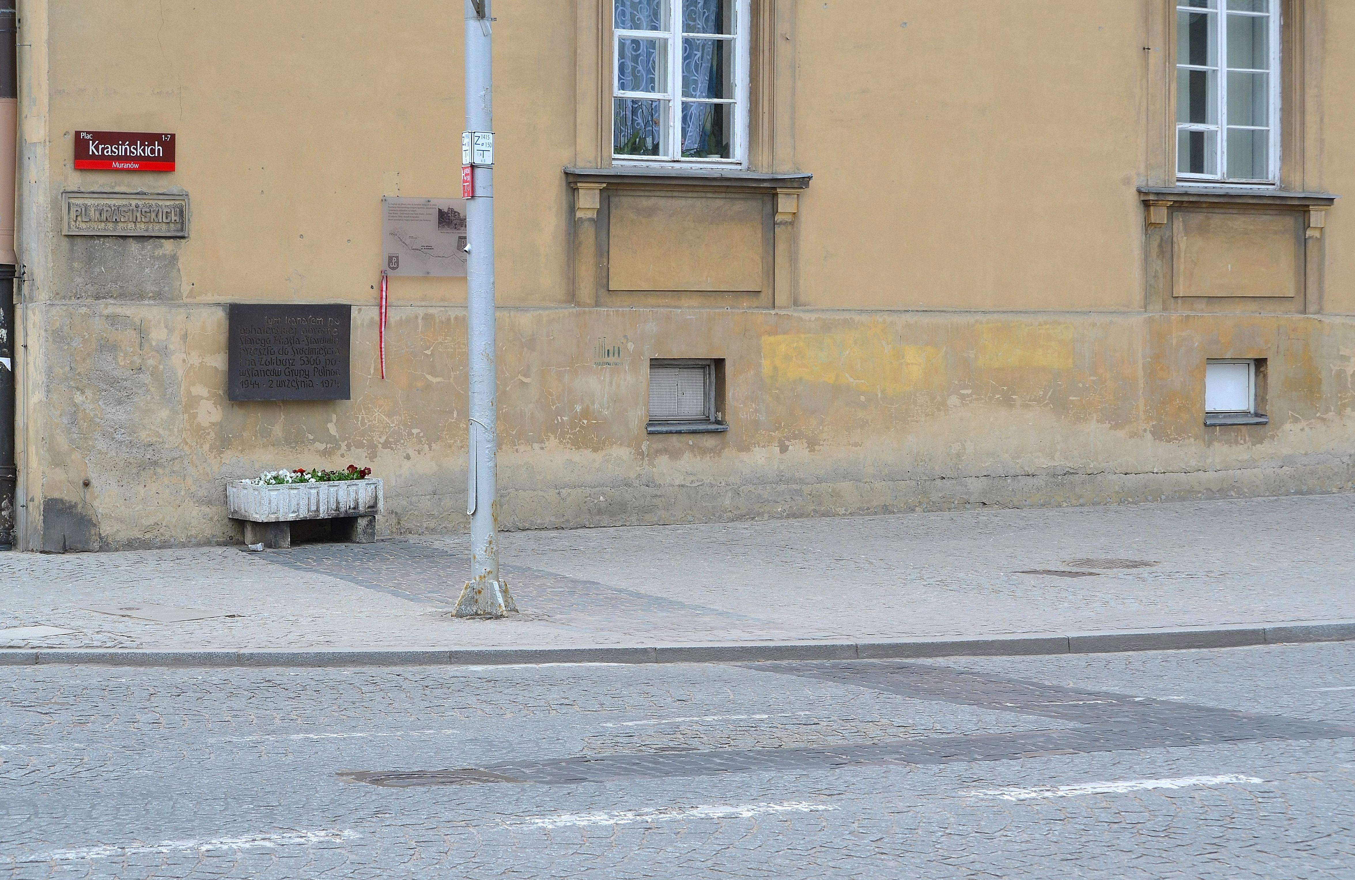 Commemoration of the entrance to the channel in Krasiński Square in Warsaw